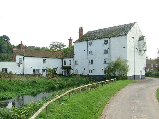 Bintree Mill. This is Bintree Mill in Norfolk. It is actually about 2km and west of the village of Bintree. Between Norwich and Fakenham.